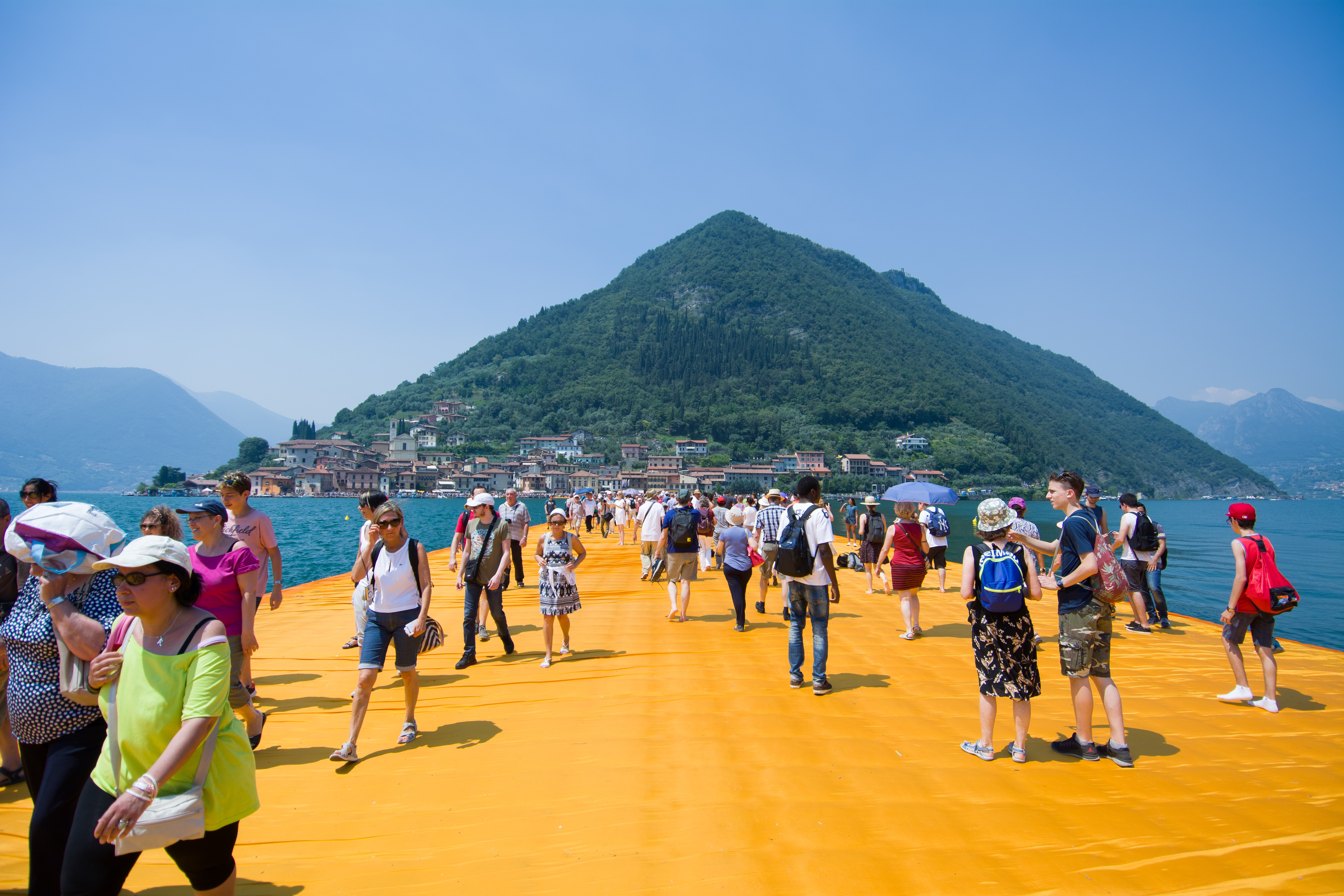 Part of an art installation at Lake Iseo created by Christo and Jeanne Claude.